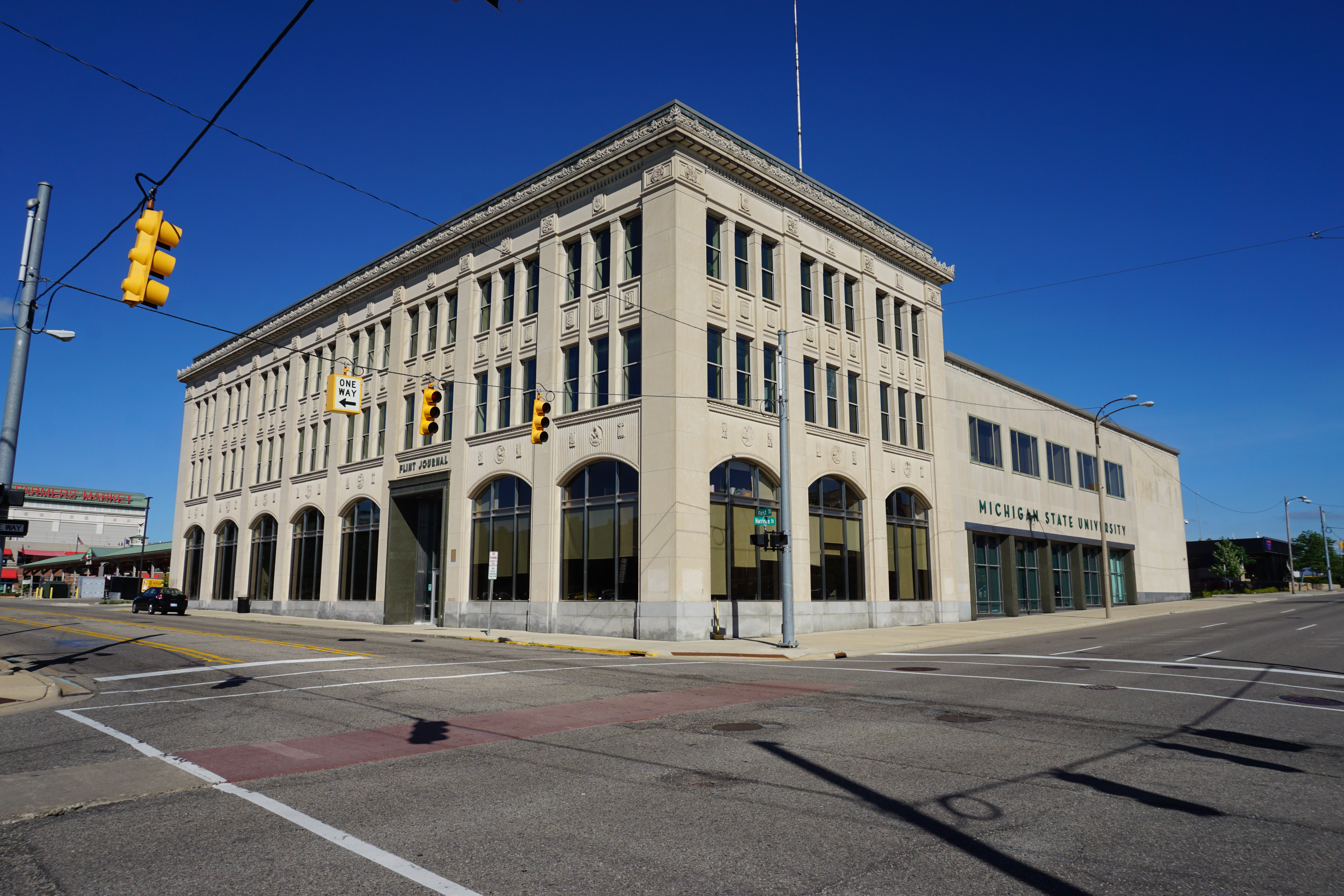 The Michigan State University College of Human Medicine (formerly the Flint Journal Building) in Flint, Michigan (United States).